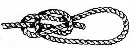 line art drawing